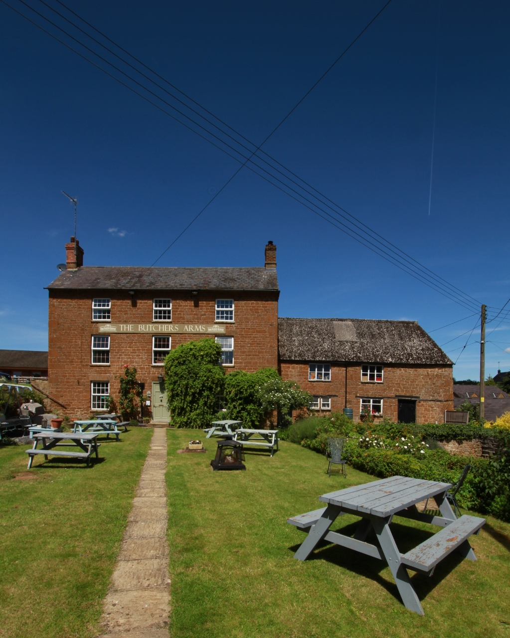 The Butchers Arms, Balscote, Oxfordshire, seen from the southeast